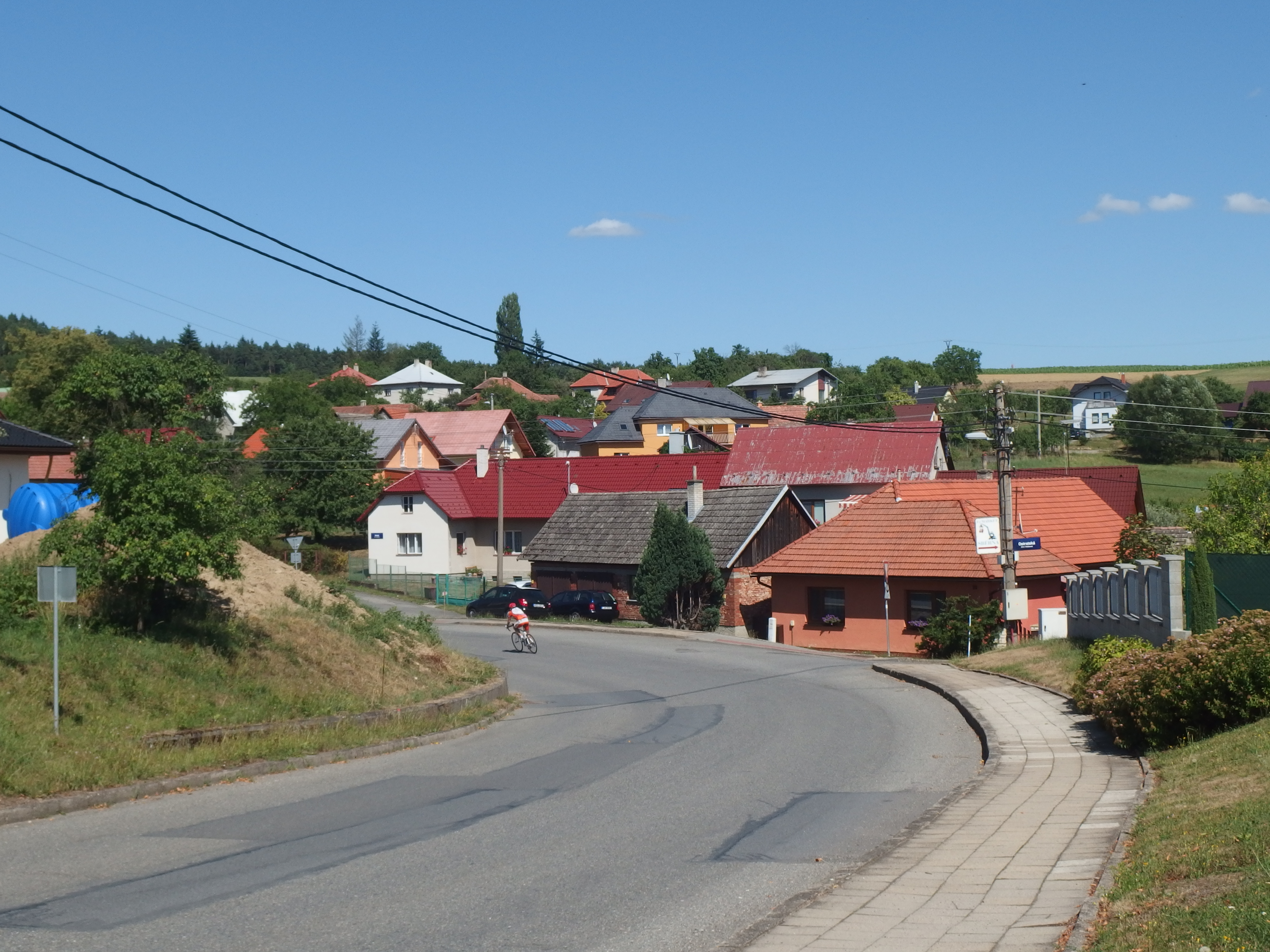 Zlín, Czech Republic, part Velíková.